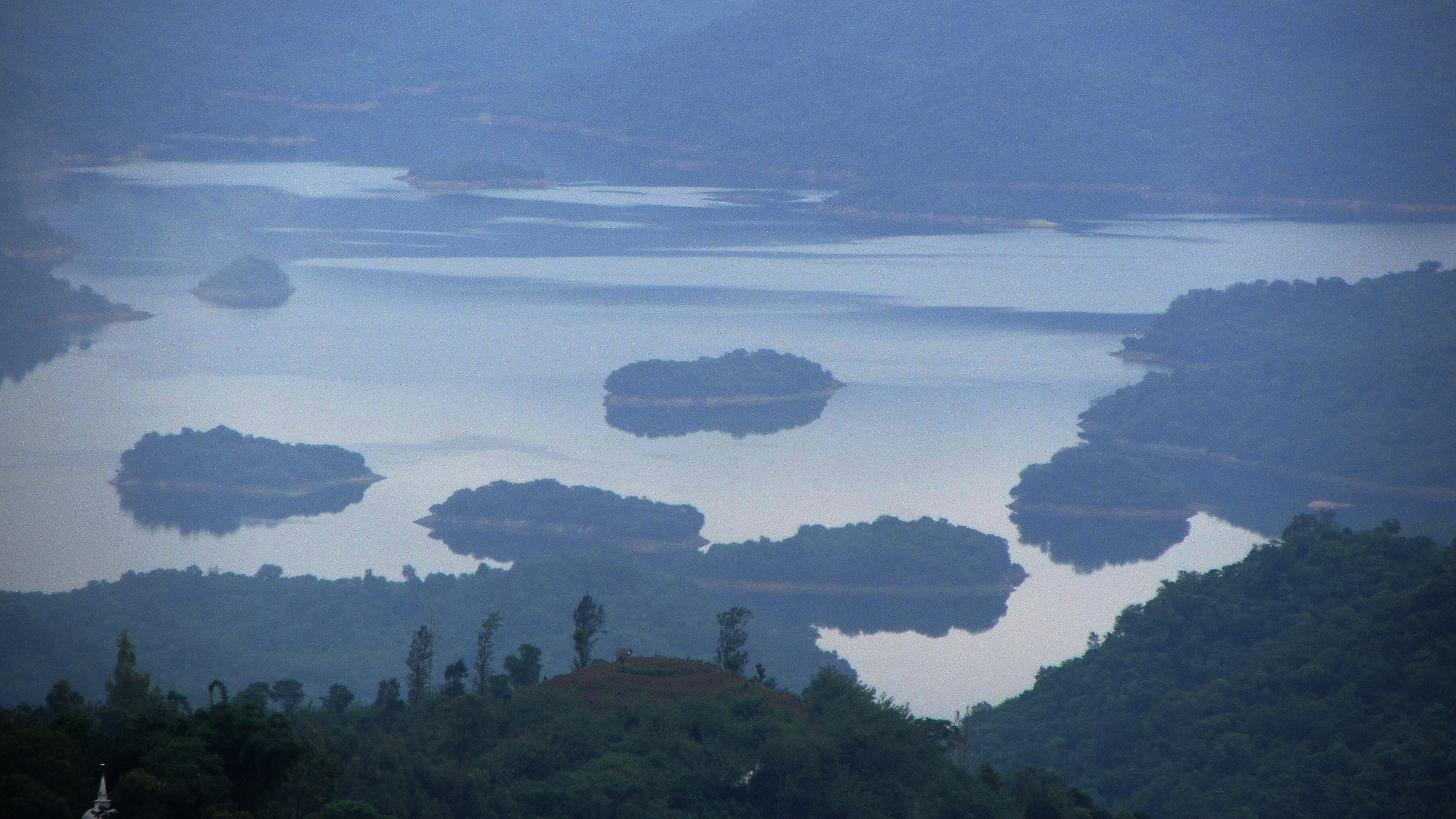 The Randenigala Reservoir, as seen from 13km away in Harasbedda, Central Province, Sri Lanka.